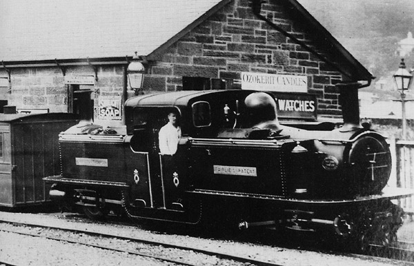 Ffestiniog Railway locomotive Livingston Thompson at Porthmadog Harbour Station, 1879